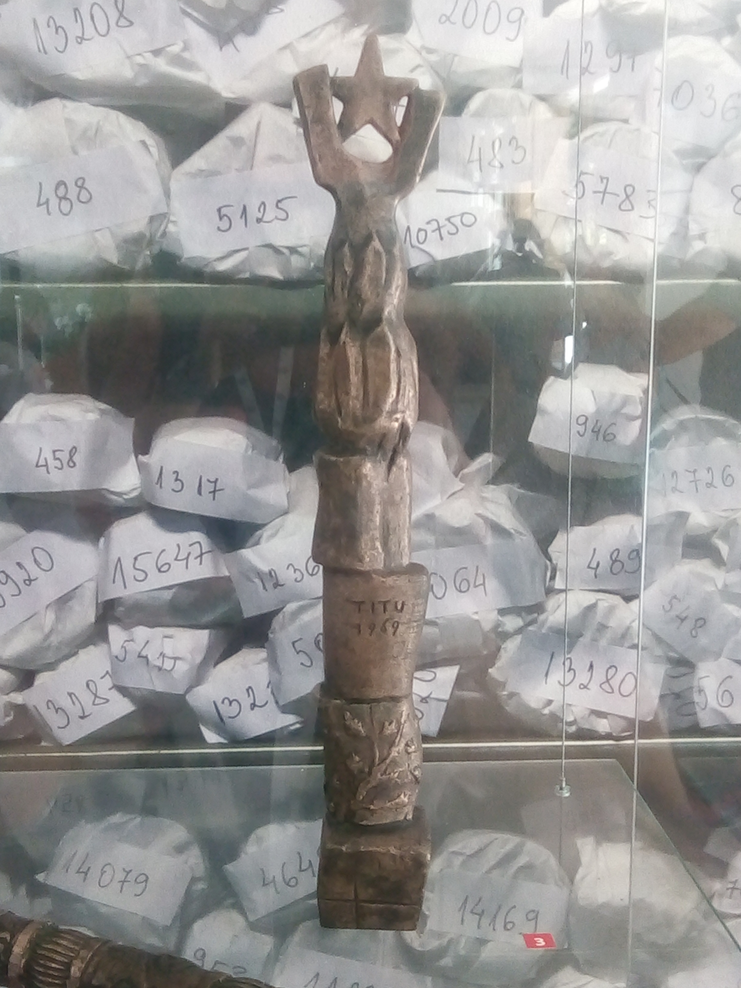 Relay of Youth in Museum of Yugoslavia Srpski (latinica): Štafeta iz 1969. godine u Muzeju Jugoslavije